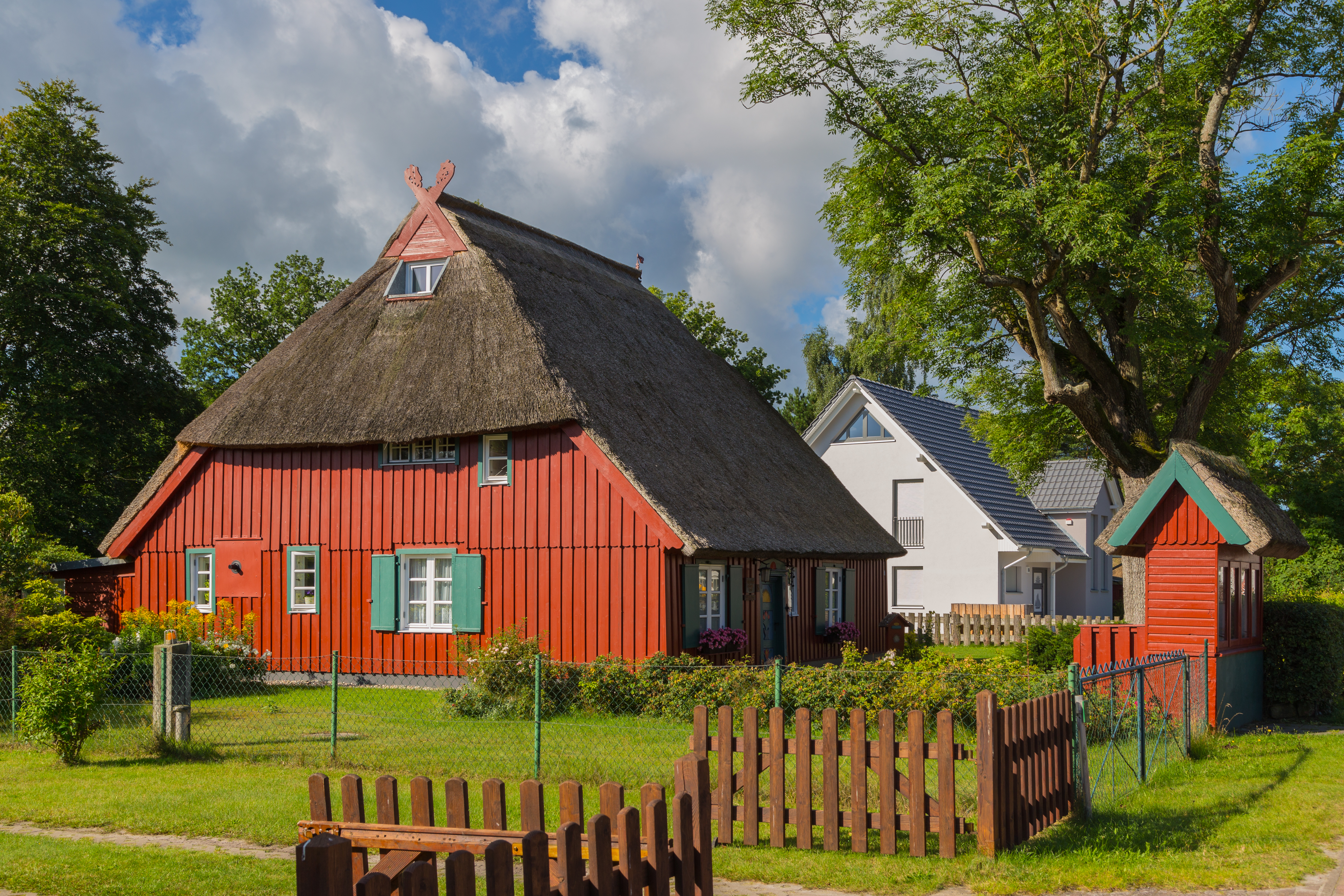 Ash Tree House (Eschenhaus), 8 Green Street (Grüne Straße 8) in Prerow, Landkreis Vorpommern-Rügen, Mecklenburg-Vorpommern, Germany. This was the home of Darß painter Theodor Schultze-Jasmer. The eponymous ash tree can bee seen on the right side of the picture.